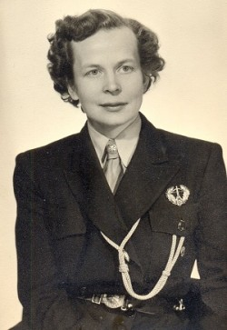 Photograph of the Finnish lawyer and minister Helvi Sipilä (1915–2009) in an honorary scout uniform.